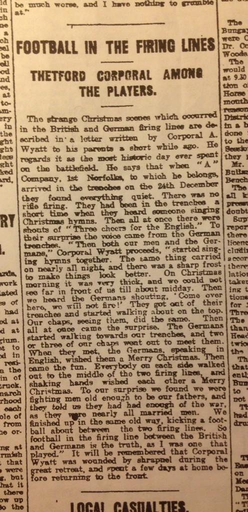 An article reporting the famous football match of the Christmas Truce during the First World War